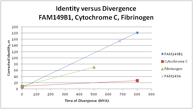 Corrected Identity (using the Molecular Clock Hypothesis) for FAM149B1, Cytochrome C, and Fibrinogen. Graph depicts the relative speed at which the FAM149B1 gene is mutated. The graph also helps determine an estimated time of divergence between the FAM149B1 and FAM149A paralogs.